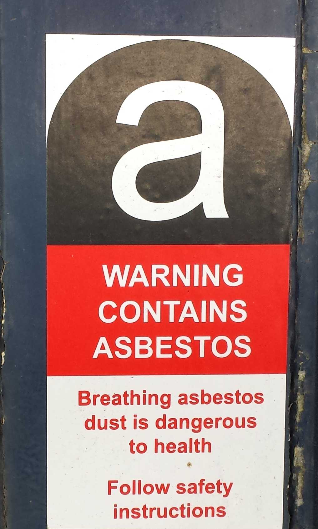 Photograph of asbestos warning label, UK.